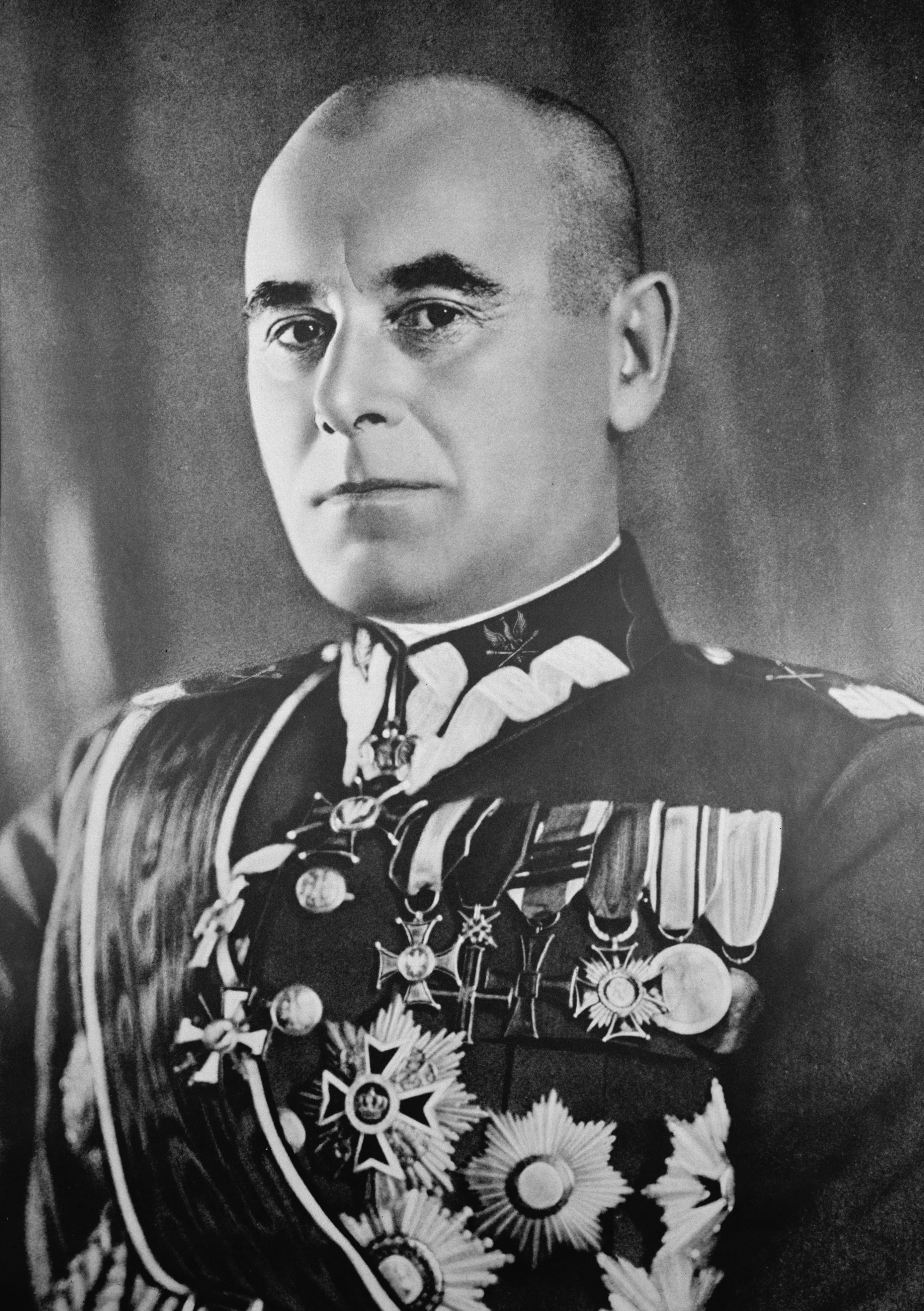 Official governmental photo of Edward Śmigły-Rydz as a Marshall of Poland. First published in Gazeta Polska in 1937.